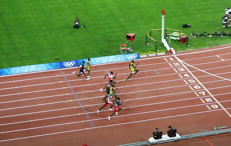 Usain Bolt winning the 100 m final 2008 Olympics